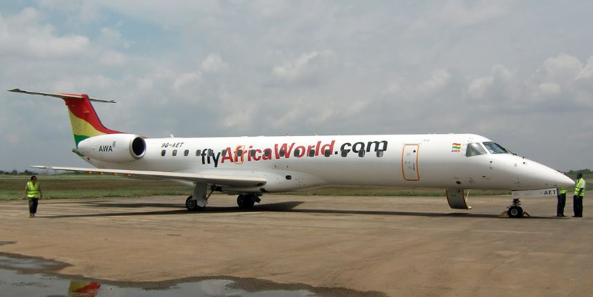 9G-AET at Kumasi Airport